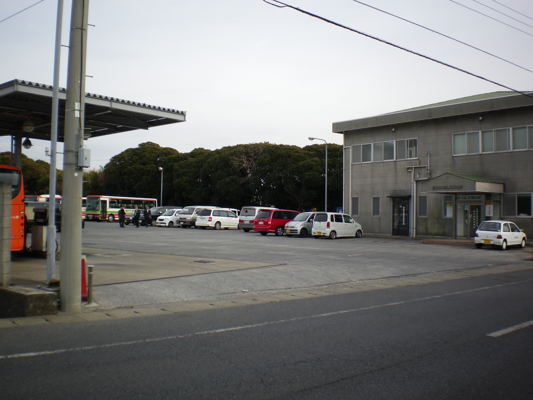 Nitto Kotsu Futtsu Department Office.